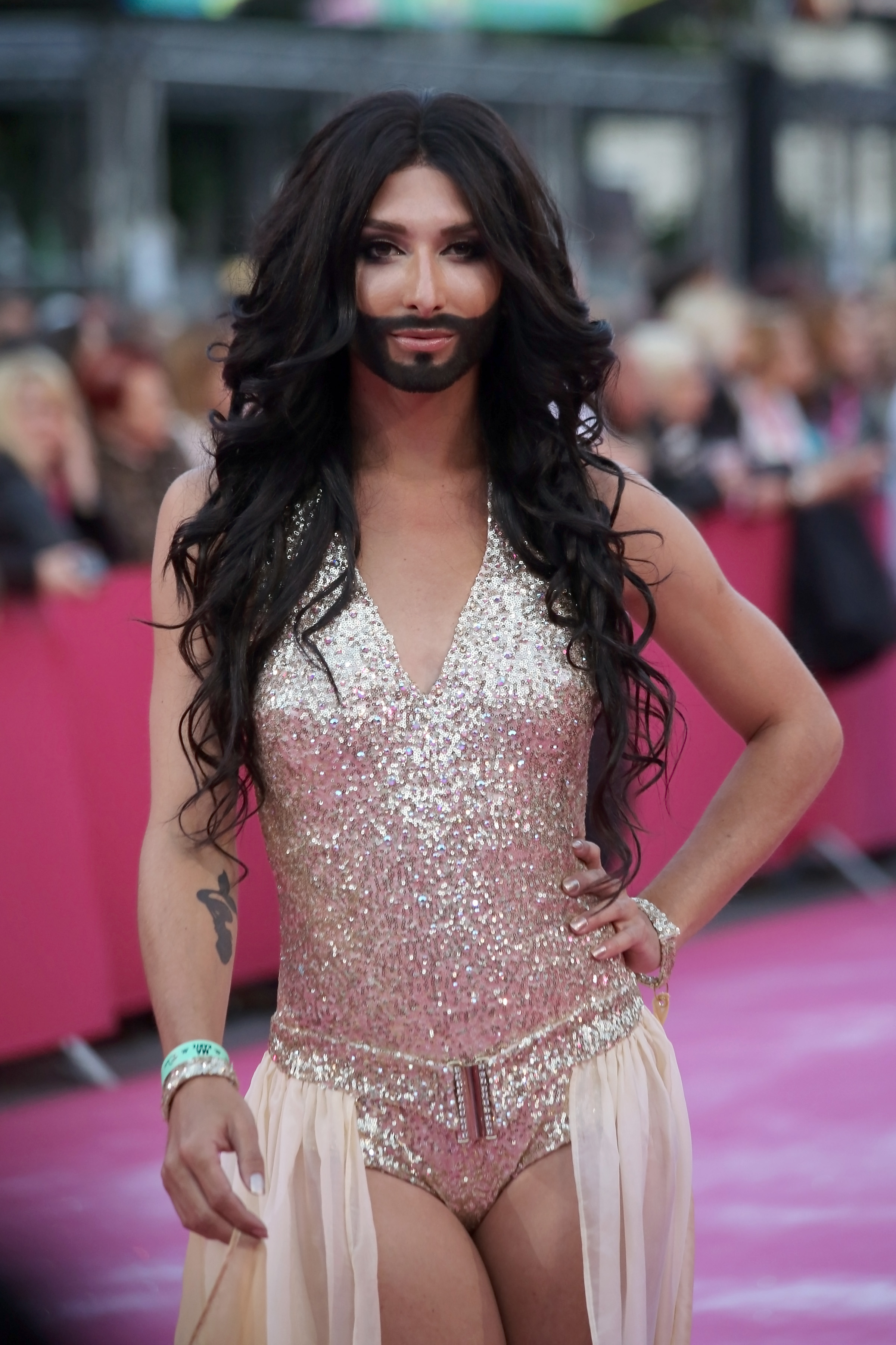 Conchita Wurst on the 'magenta carpet' at Life Ball 2013 at the square in front of the city hall of Vienna, Vienna, Austria.